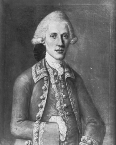 Portrait of Johann Wilhelm Cornelius von Königslöw (1745-1833), German organist and composer